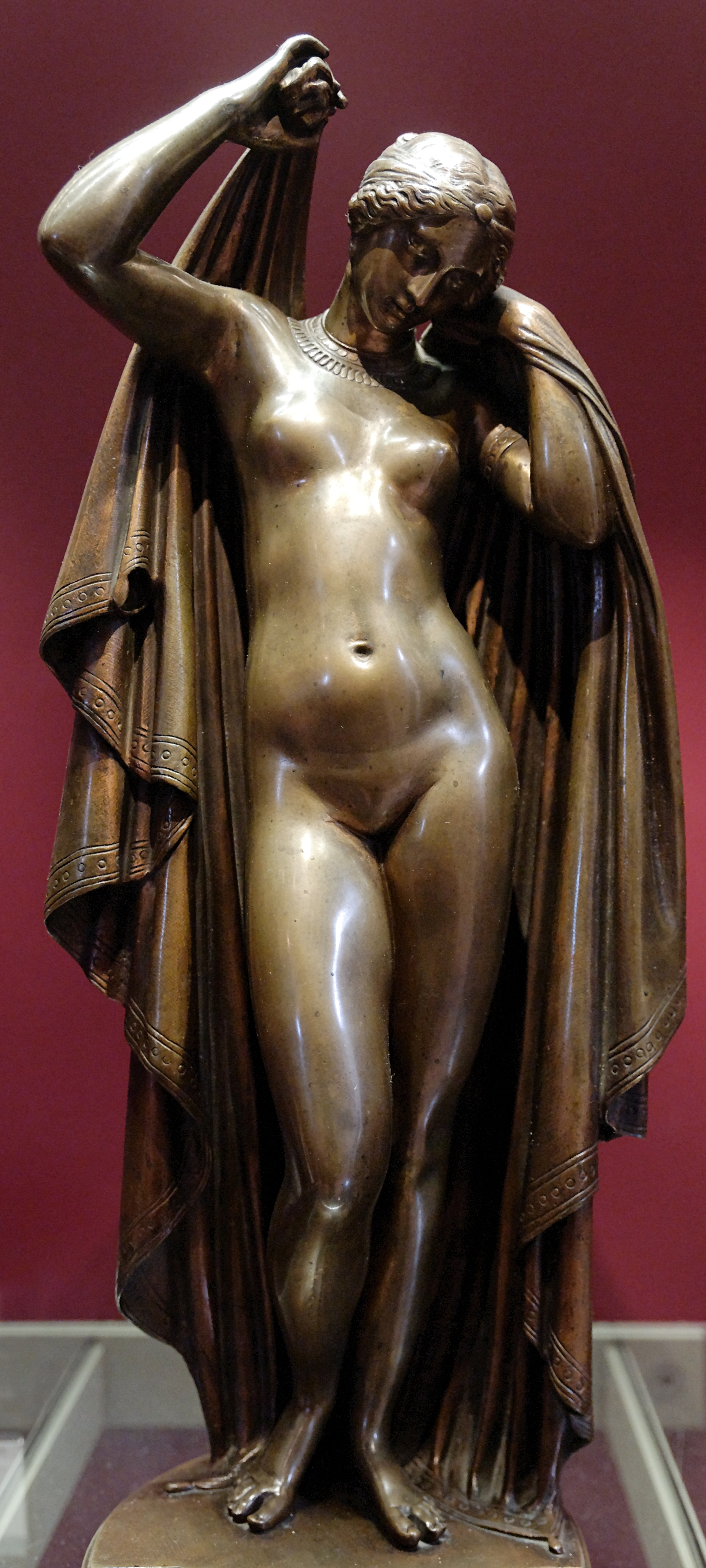 Sand cast bronze, 1845.